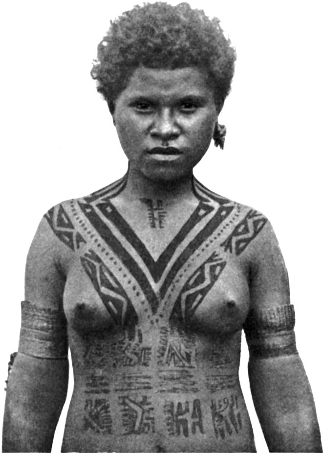 A marriageable girl.Tattooing of a Koita (New Guinea) girl who has reached a marriageable age. The decoration is begun when she is about five years old, and is added to year by year as she gets older. The V-shaped marks on the chest, with certain others, are done last, and are an indication that the girl is marriageable.